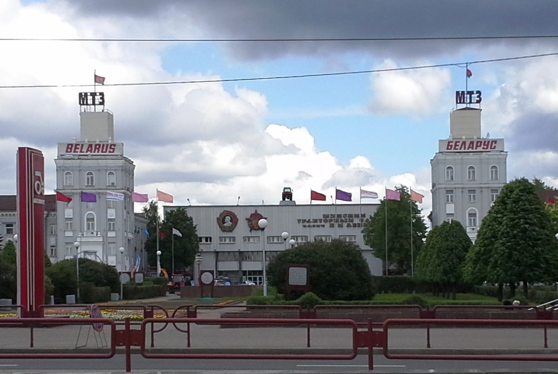 Main entrance of the Minsk Tractor Plant